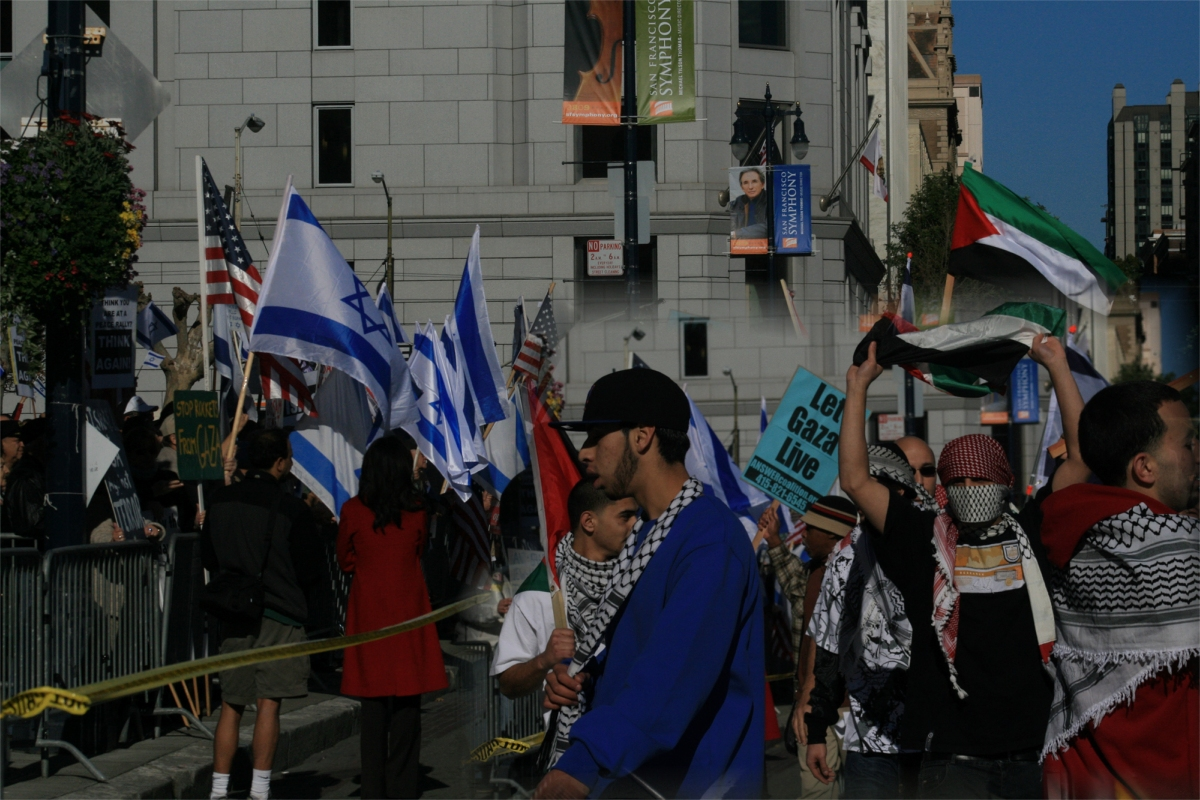 Supporters of Hamas came to anti Hamas demonstration to intimitate it with yelling: "From the river to the sea Palestine will be free." Much bigger crowd of pro Hamas demostrators were watching across the street.